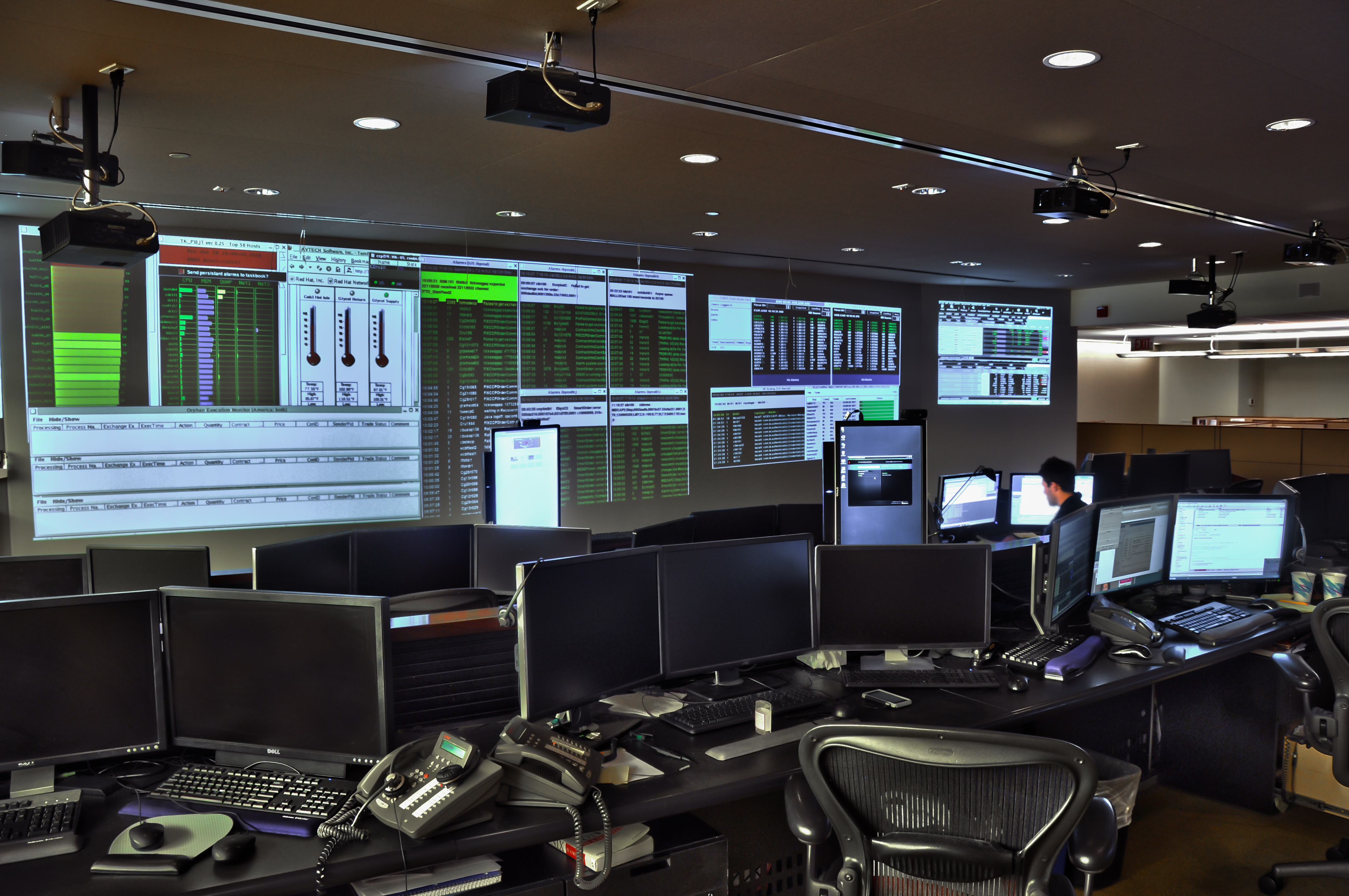 Jpg and recolor of File:Interactive Brokers War Room.tif, from August 20, 2014.